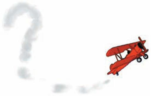 Cartoon of skywriting aircraft